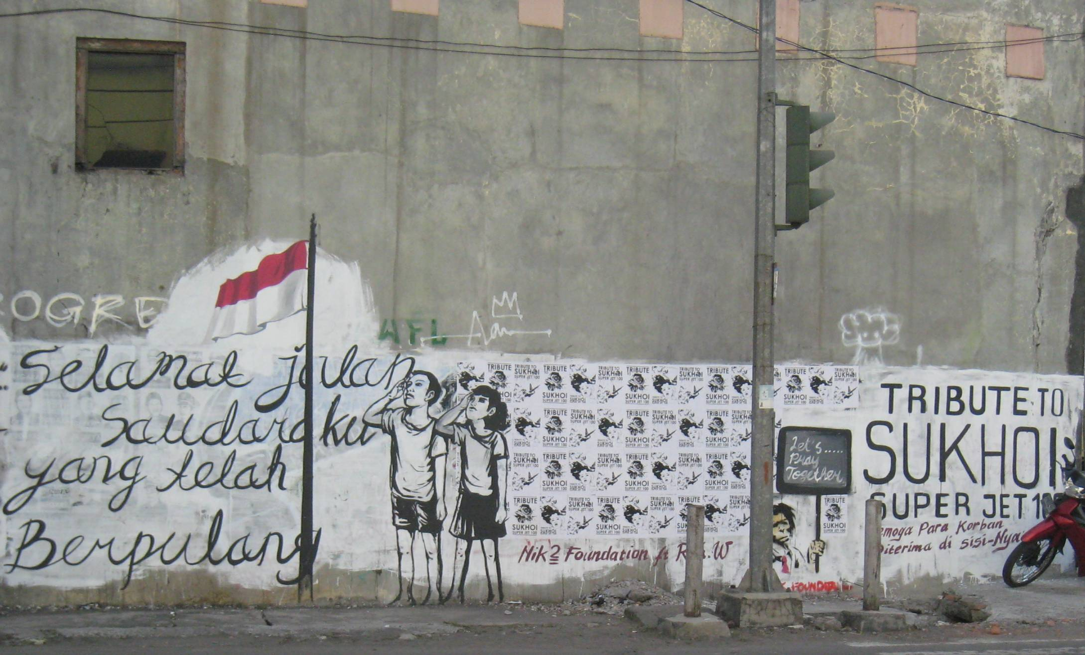 A grafitti commemorating Sukhoi Superjet 100 crash, May 2012 in Indonesia. Caption: "Goodbye my brethren who have passed"